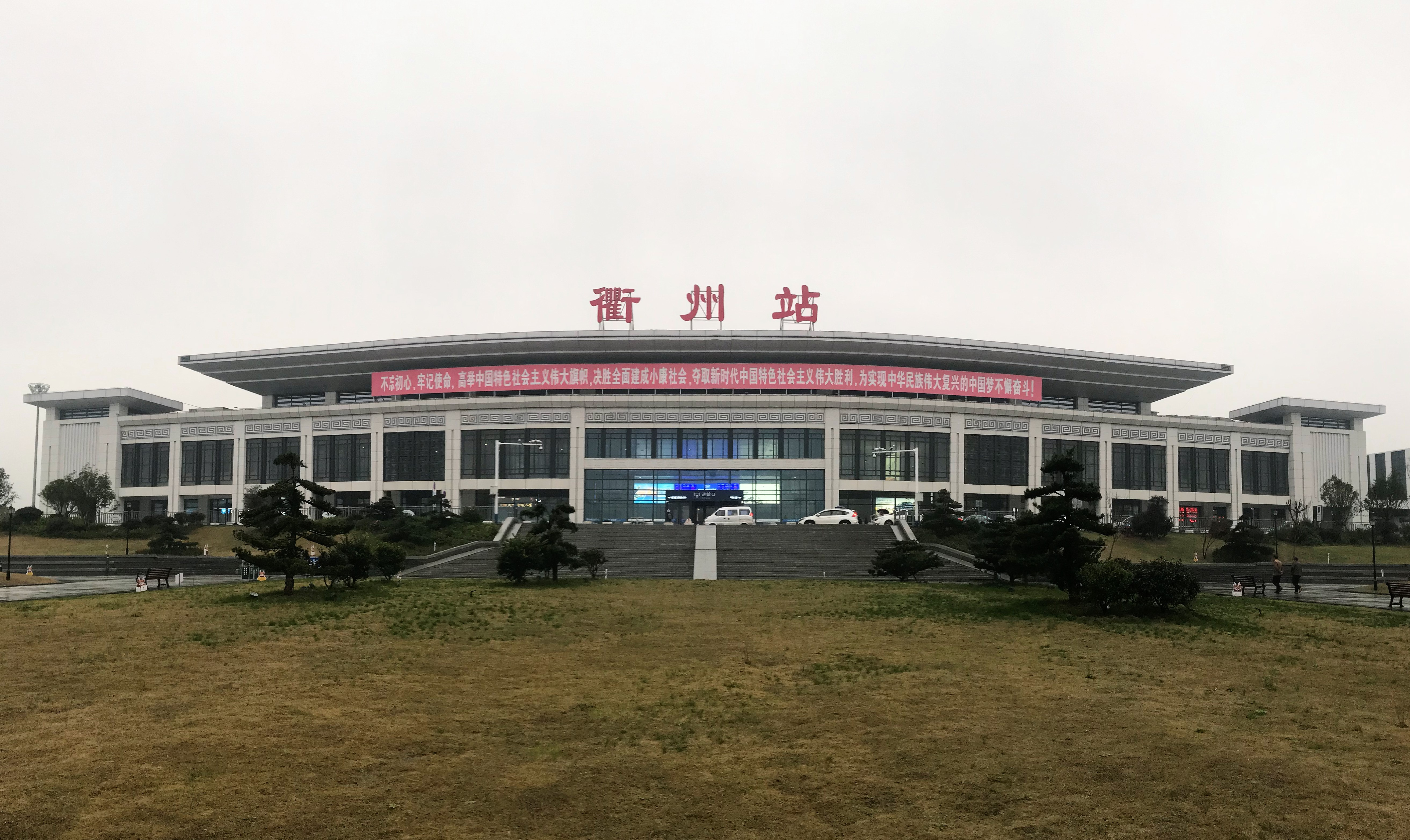 201901 Station Building of Quzhou